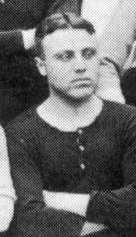 Hugh Dolby - Taken from a Brentford FC postcard published by Wakefields in 1912.